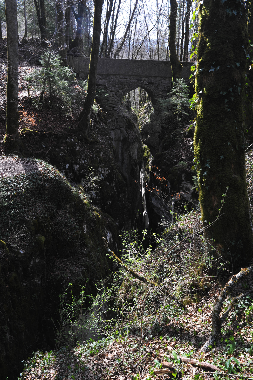 Pont du Diable (Devil's bridge) crossing Nans de Bellecombe near Le Pont; Savoie, France.